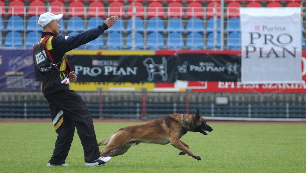 Felix Ho During Send Out with Schwarchund Marko in 2006 FMBB World Championship Hungary 中文（香港）: 何斐然與炮艇在2006年匈牙利FMBB世界賽